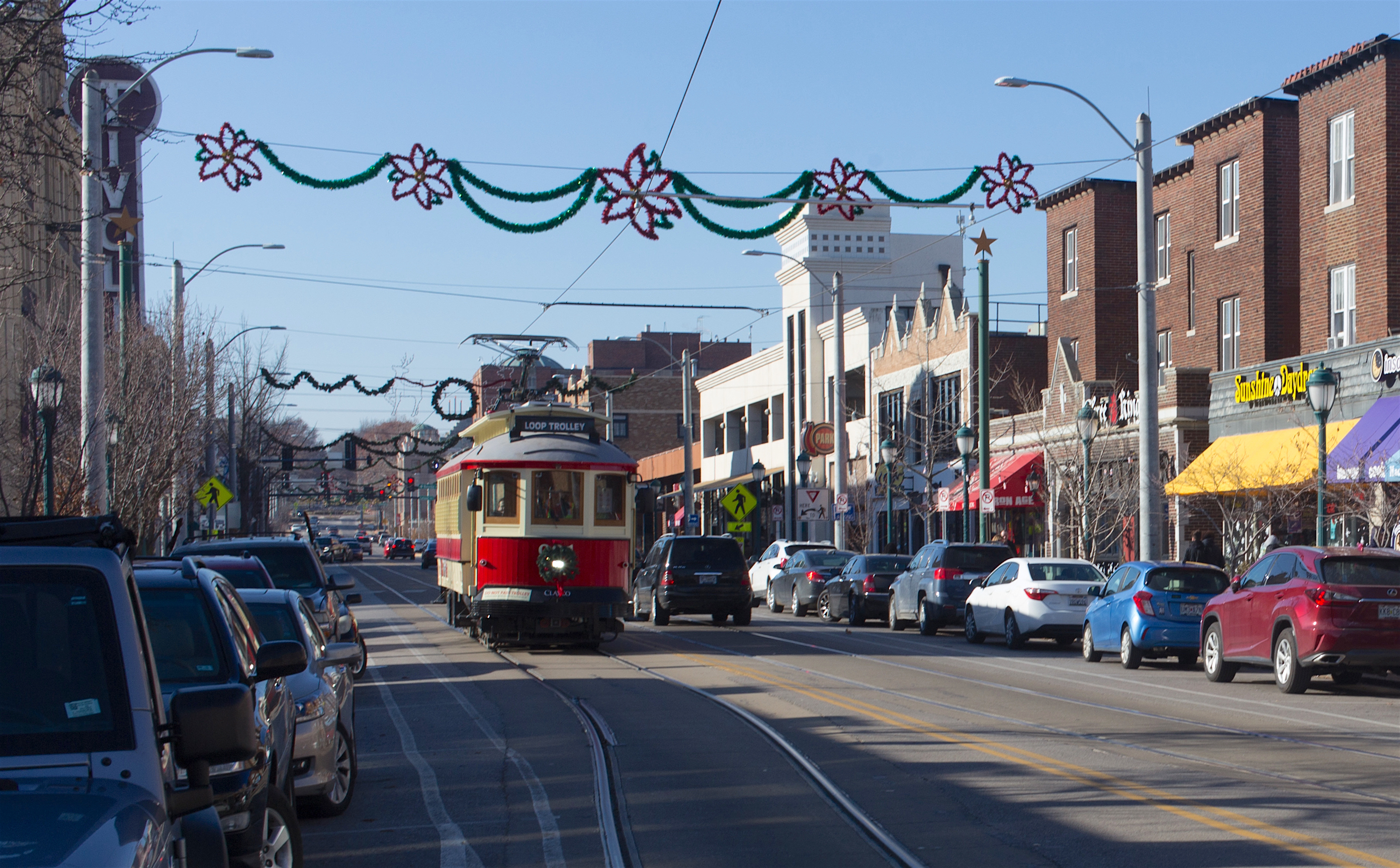 Loop Trolley car 001 eastbound on Delmar Blvd. just west of Limit Avenue in University City, Missouri, in the Delmar Loop district. This section of the Loop Trolley line had opened for service only a little more than two weeks earlier, on November 23. (The line's easternmost portion, which is entirely outside University City, had opened one week earlier.) Car 001 is ex-Portland Vintage Trolley car 512, a replica of a 1903 Brill streetcar built in 1991 by the Gomaco Trolley Company. The Tivoli Theatre is just visible at left.